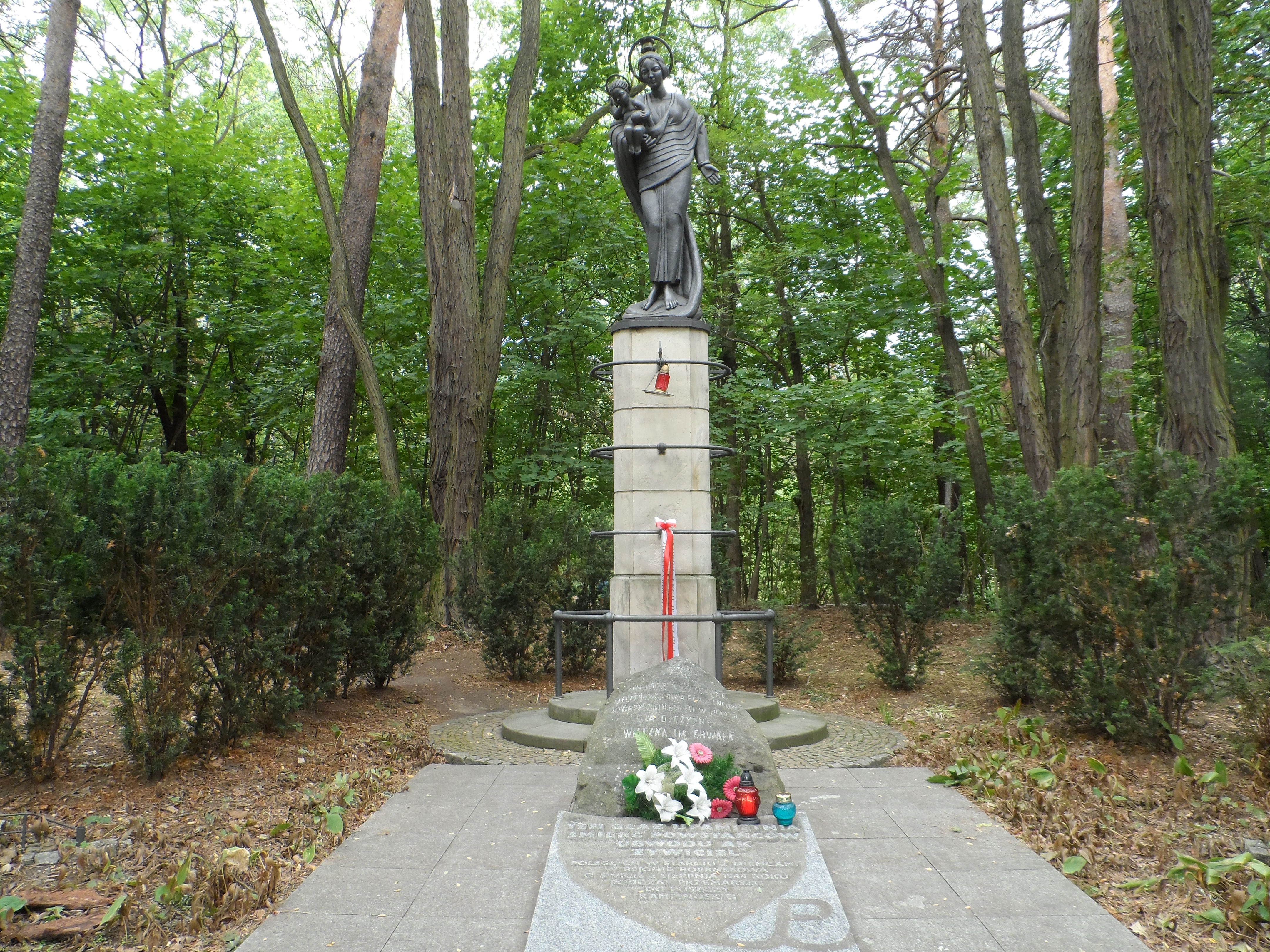 Statue of Virgin Mary at Boernerowo in Warsaw created by Jan Goliński in 1936, accompanied by memorial stone and plaque which commemorate Warsaw Insurgents who were killed in this area on 2 August 1944.